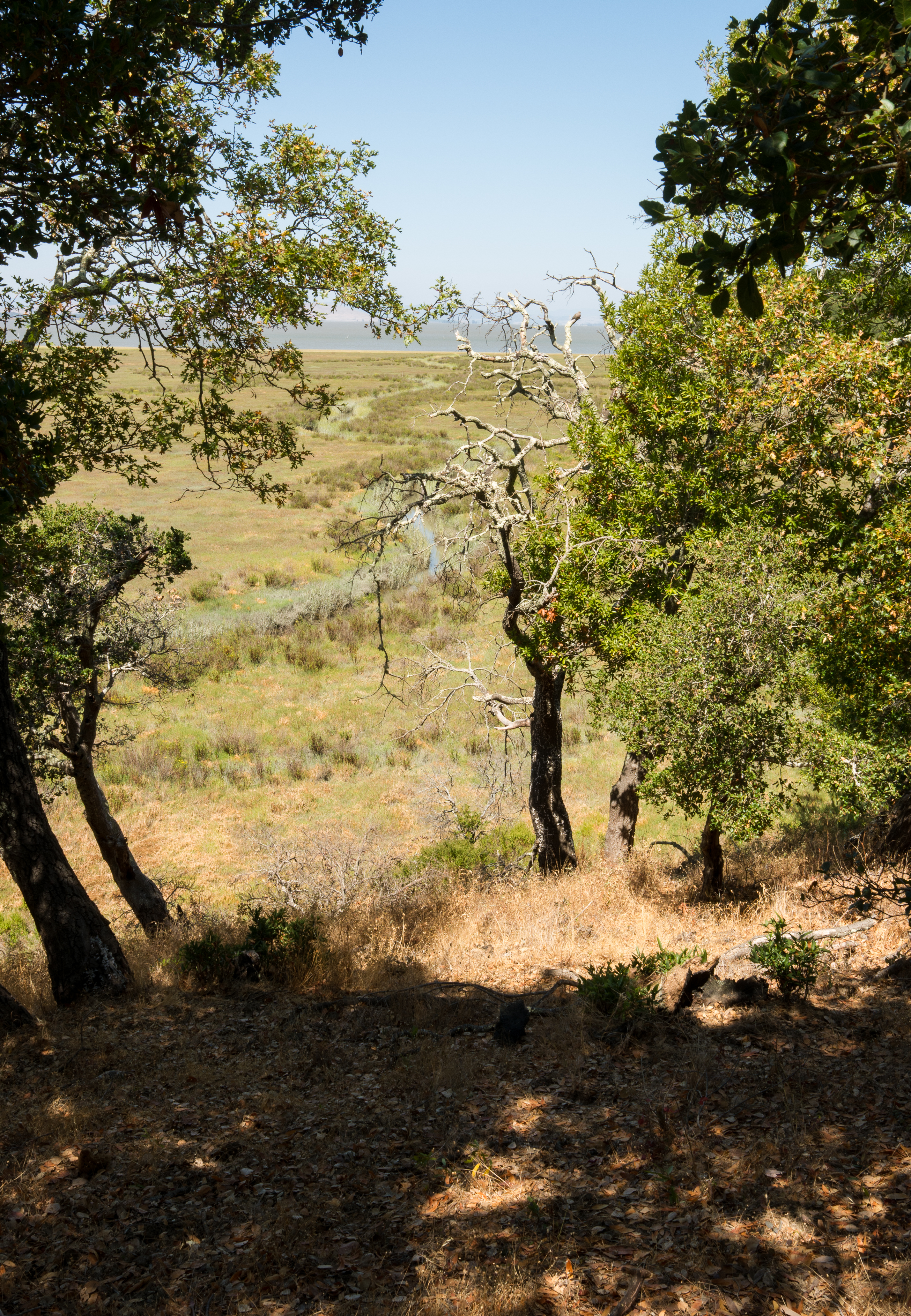 Salt marsh and oaks in China Camp State Park, as seen from Turtle Back Hill, August 2012.